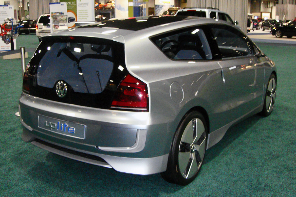 Volkswagen Up Lite diesel-powered hybrid concept at the 2010 Washington Auto Show